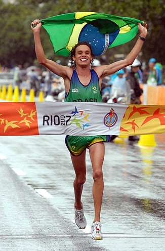 Caldeira, brazilian Pan-Am games marathon chmapion